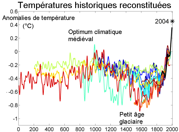 2000_Year_Temperature_Comparison.French version of Image:2000 Year Temperature Comparison.png